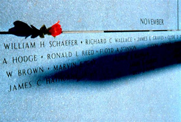 Tip of shadow touching name of lost veteran